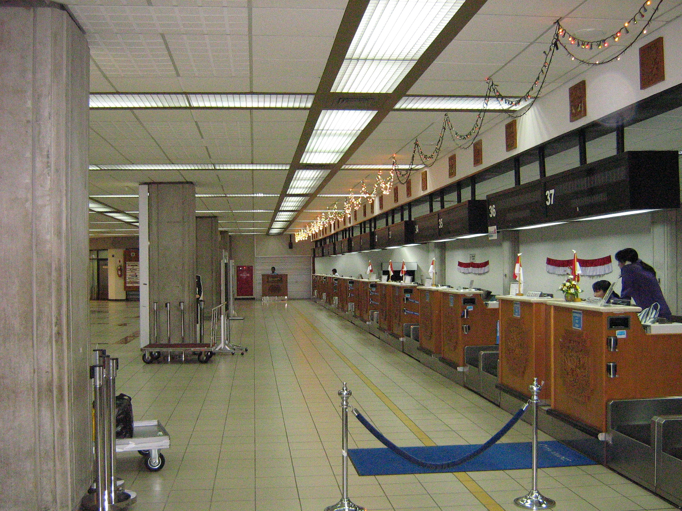 Check-in Halle am Denpasar Airport